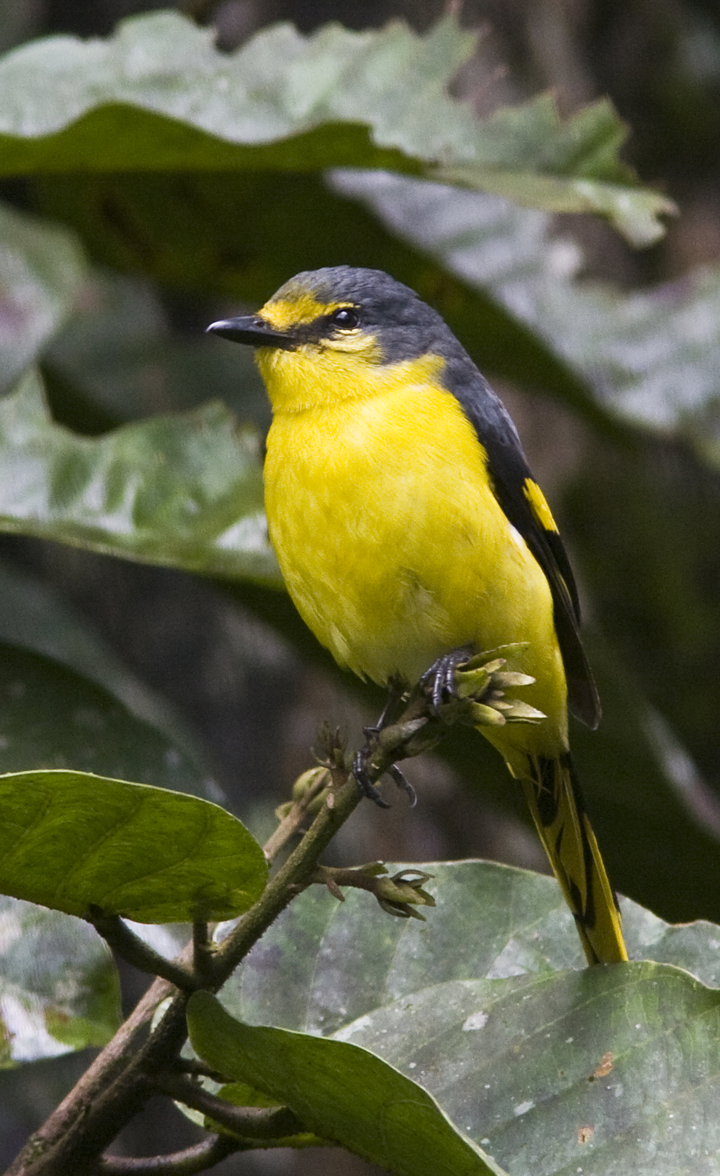 Scarlet Minivet (Pericrocotus flammeus flammeus) female.